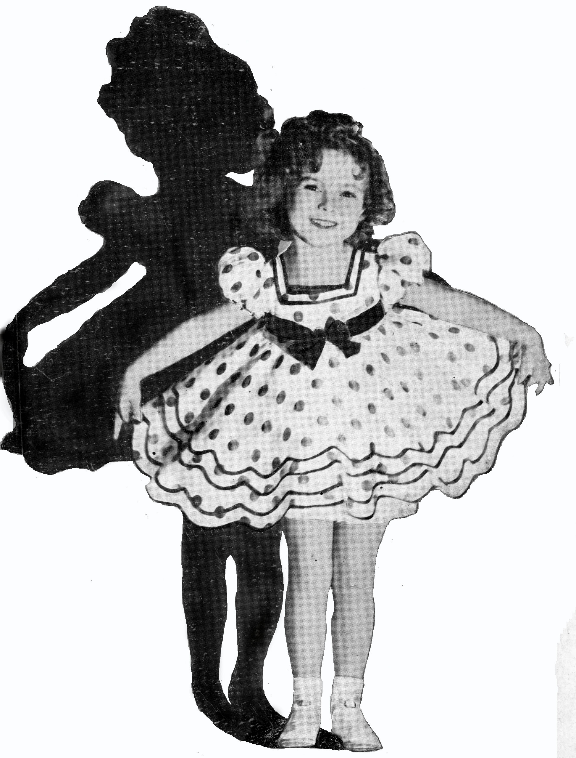 Shirley Temple in a photo published in Italy, 1934